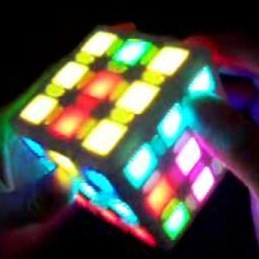 E-cube: 3x3x3 Electronic varient of Rubik's cube